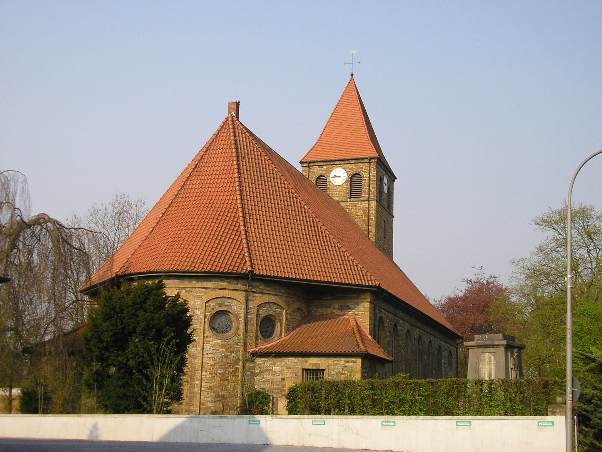 Church in town of Kirchlengern, District of Herford, North Rhine-Westphalia, Germany.